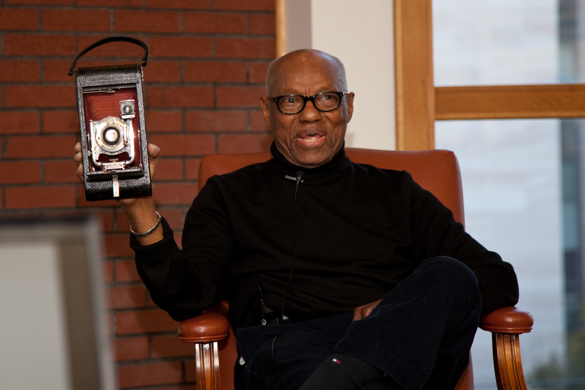 Photographer David Johnson shows his original 1940s Eastman folding camera at a 2010 talk